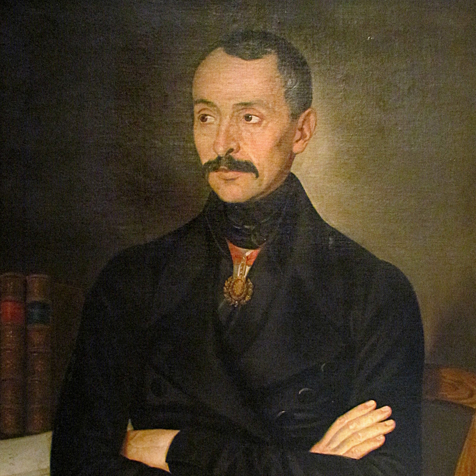 Lazar Arsenijević Serbian historian